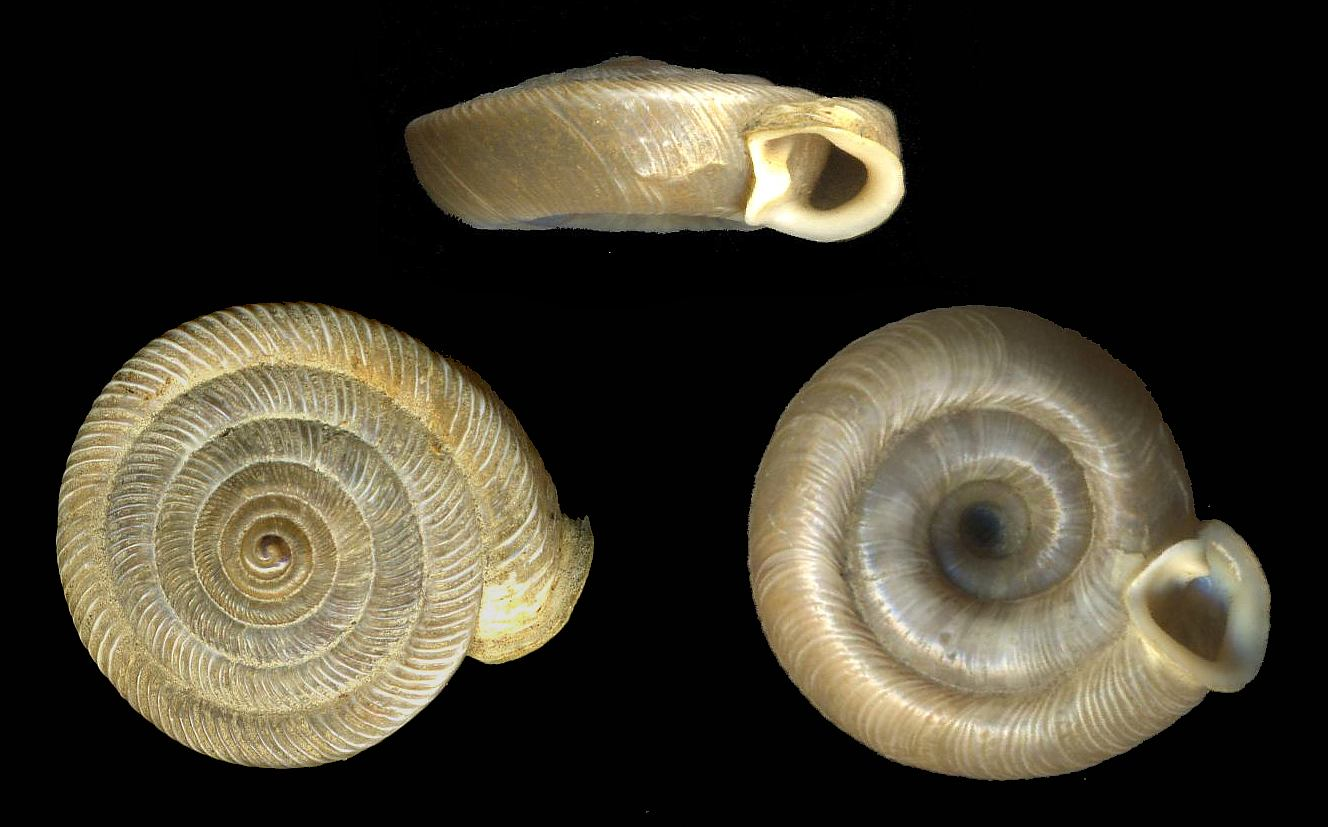 The polygyrid land snail Polygyra septemvolva volvoxis, about 12 mm in diameter (approx. 1/2 inch); Gulf County, Florida, USA; 1964.